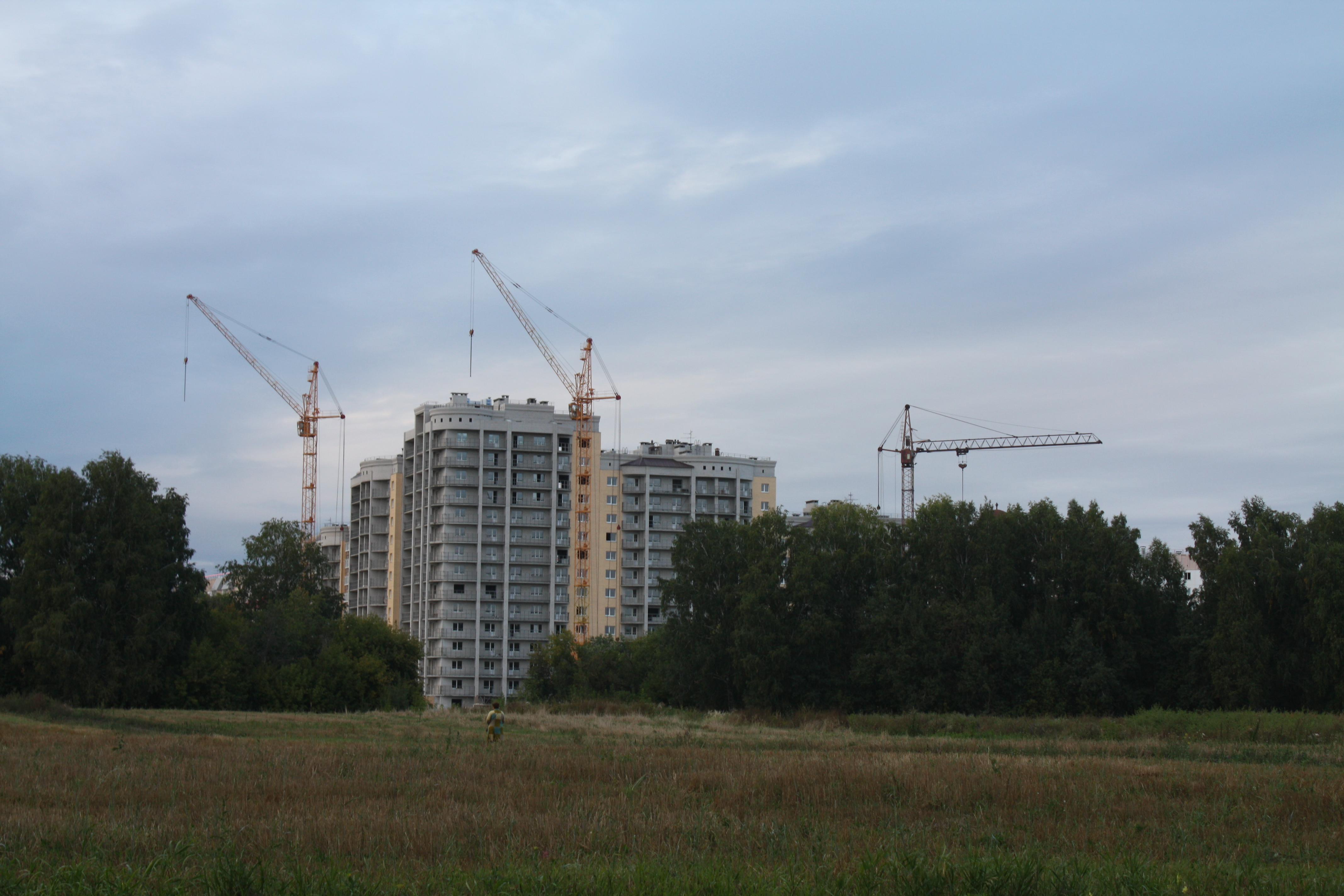 Krasnoobsk, Novosibirsky District, Novosibirsk Oblast, Russia.